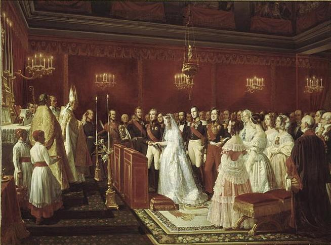 Marriage of the Duke of Nemours to Princess Victoria of Saxe-Coburg and Gotha at Saint Cloud by Henri Félix Emmanuel Philippoteaux